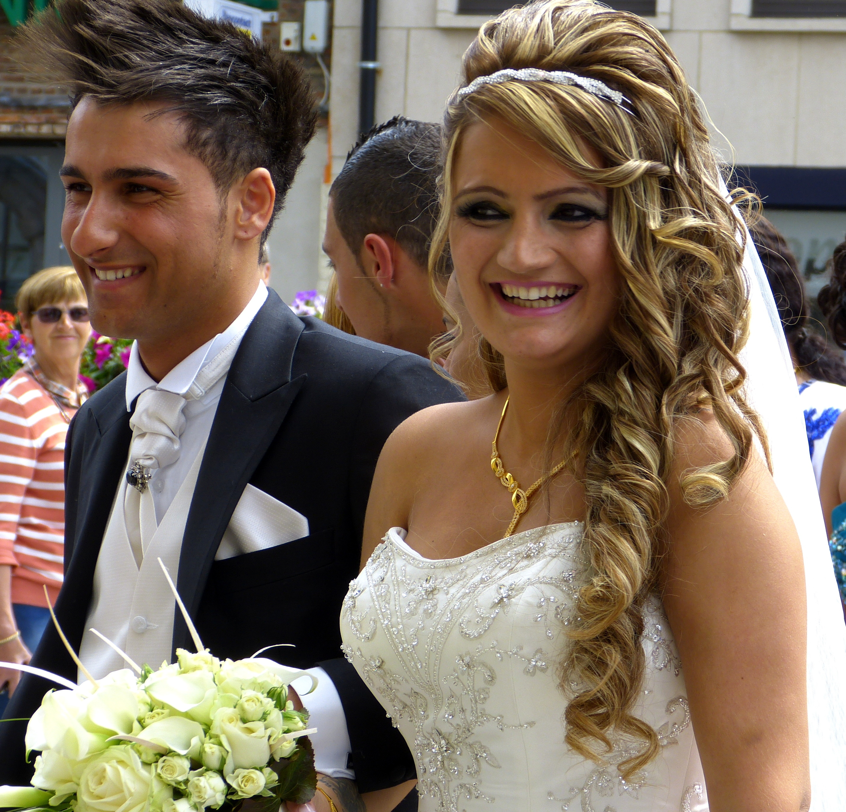 In Mechelen, city in Belgium there are about 350 families of Assyrian refugees, originally from the South East of Turkey. (Dutch and English)